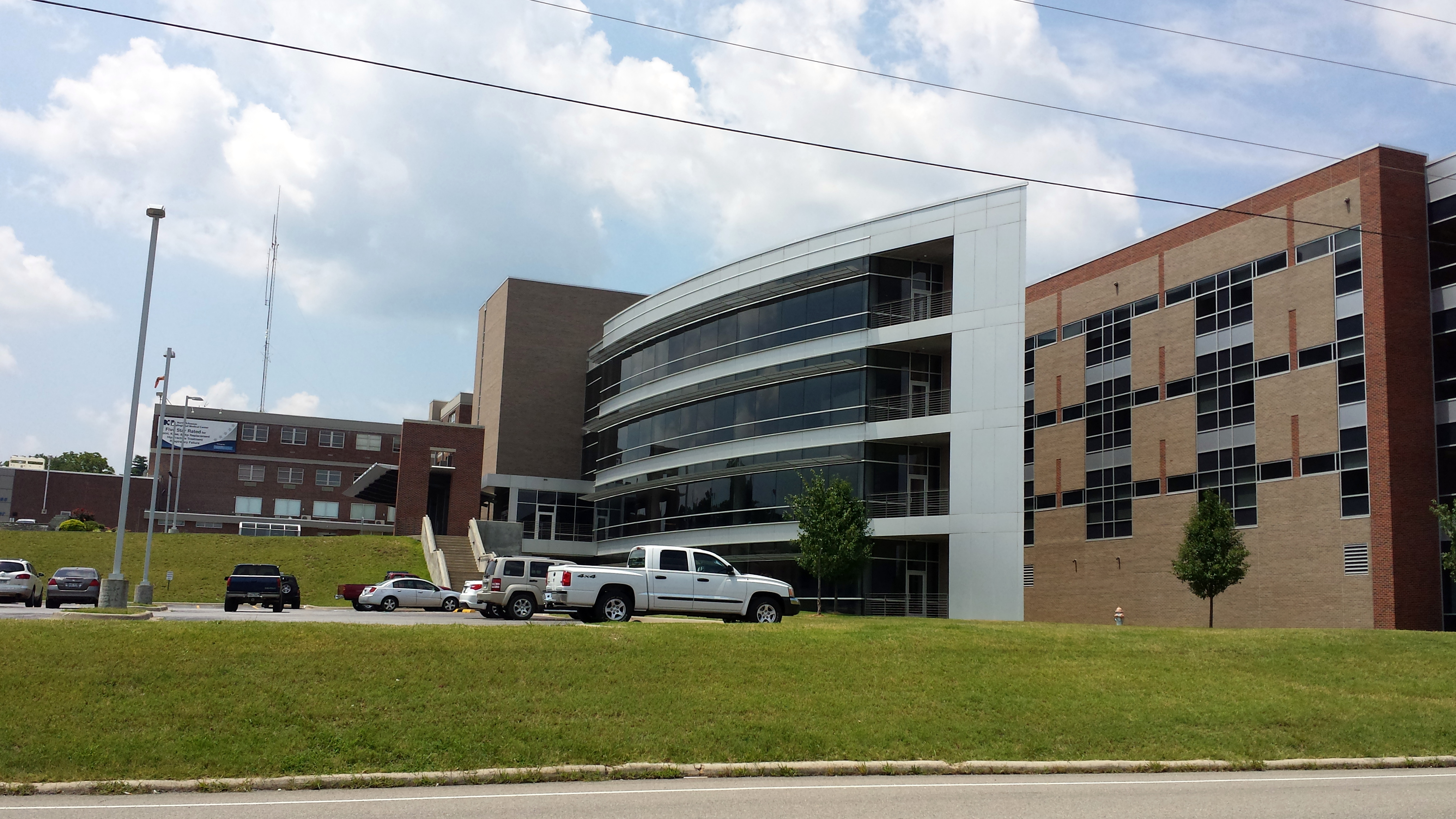 Hospital in Harrison, AR